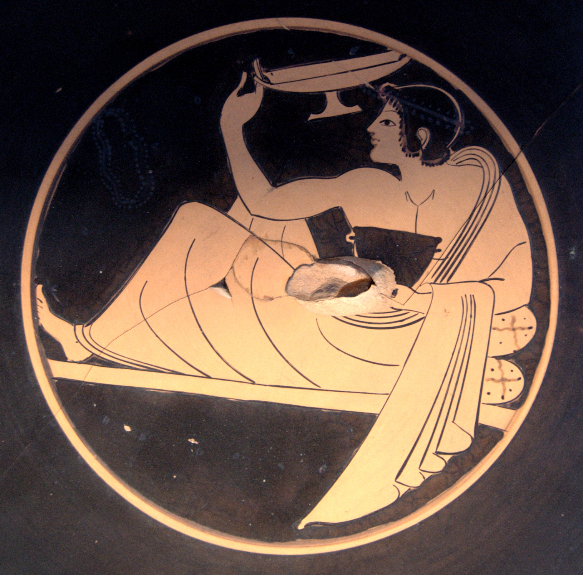 Cottabos player. Interior from an Attic red-figure kylix, ca. 510 BC. From Greece.